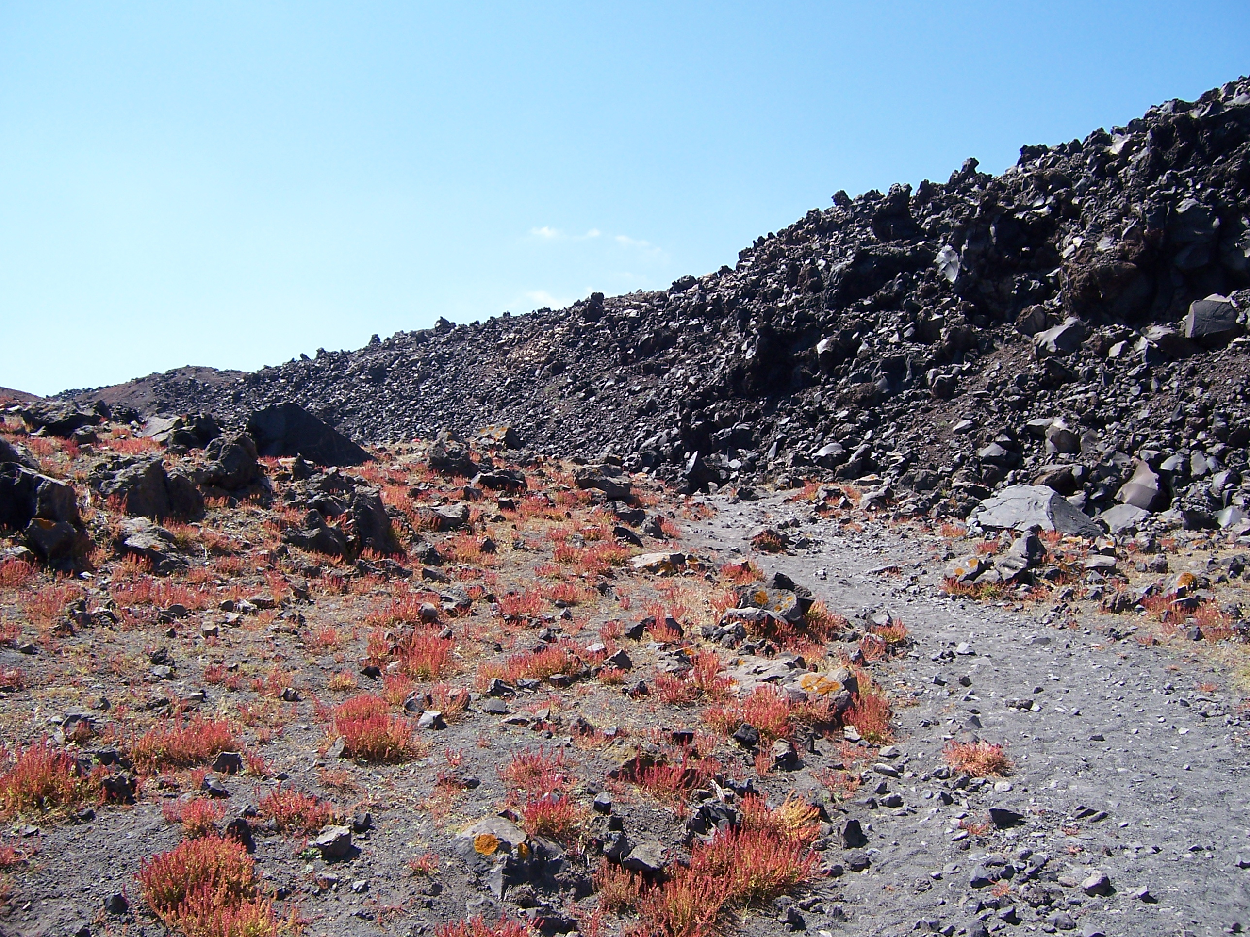 Nea Kameni landscape